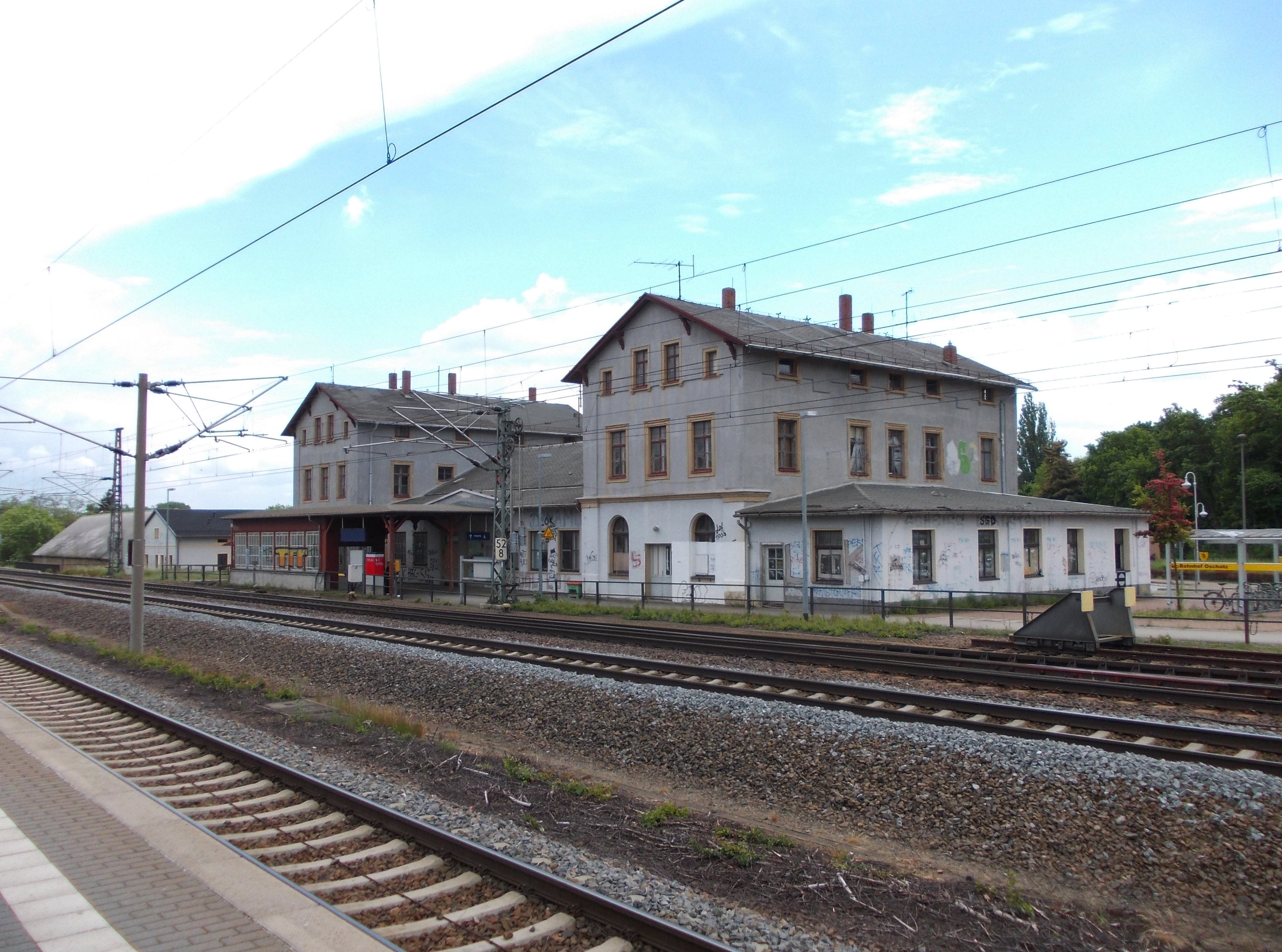 Oschatz railway station (Nordsachsen district, Saxony)